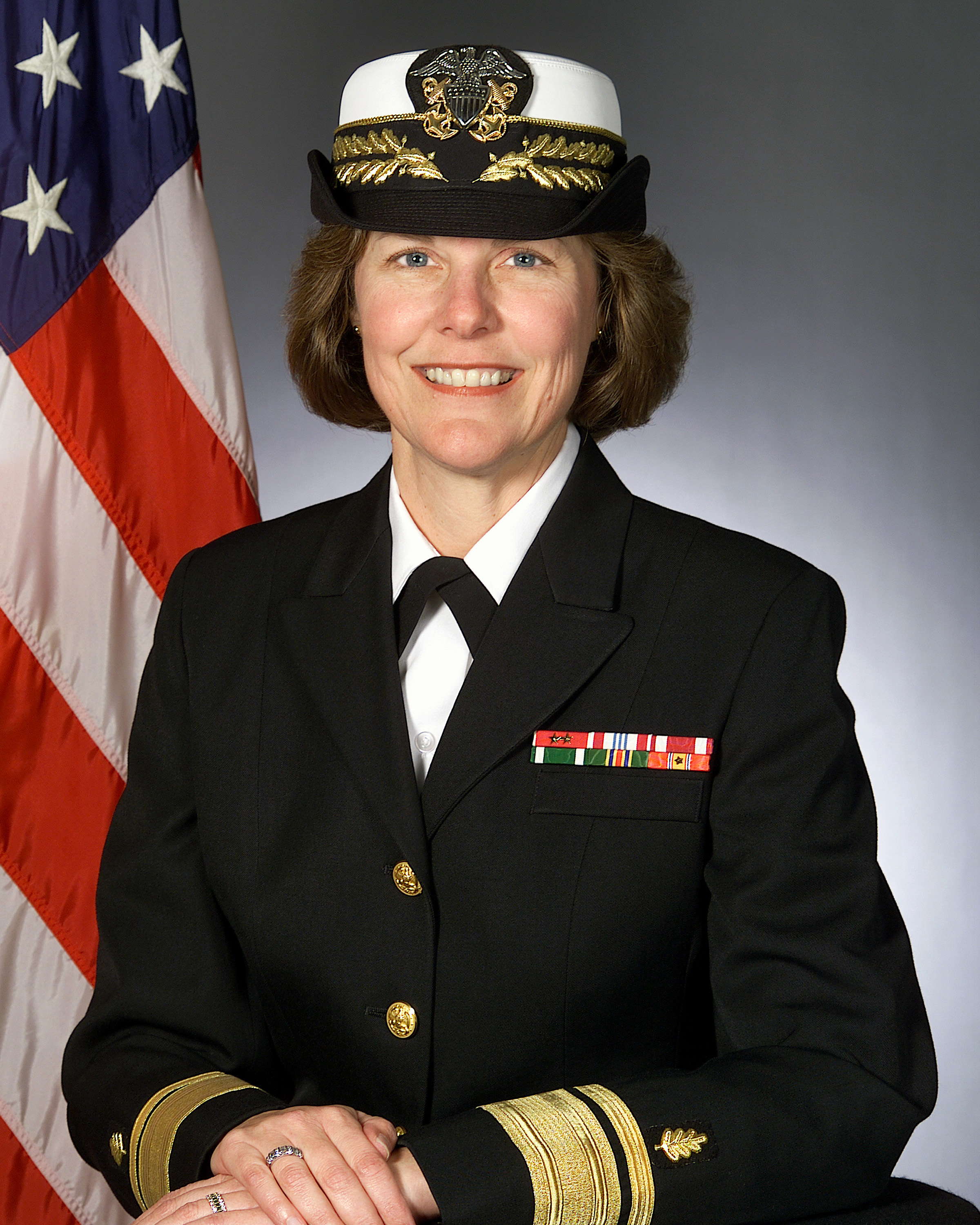 Rear Admiral (upper half) Kathleen L. Martin (Covered)